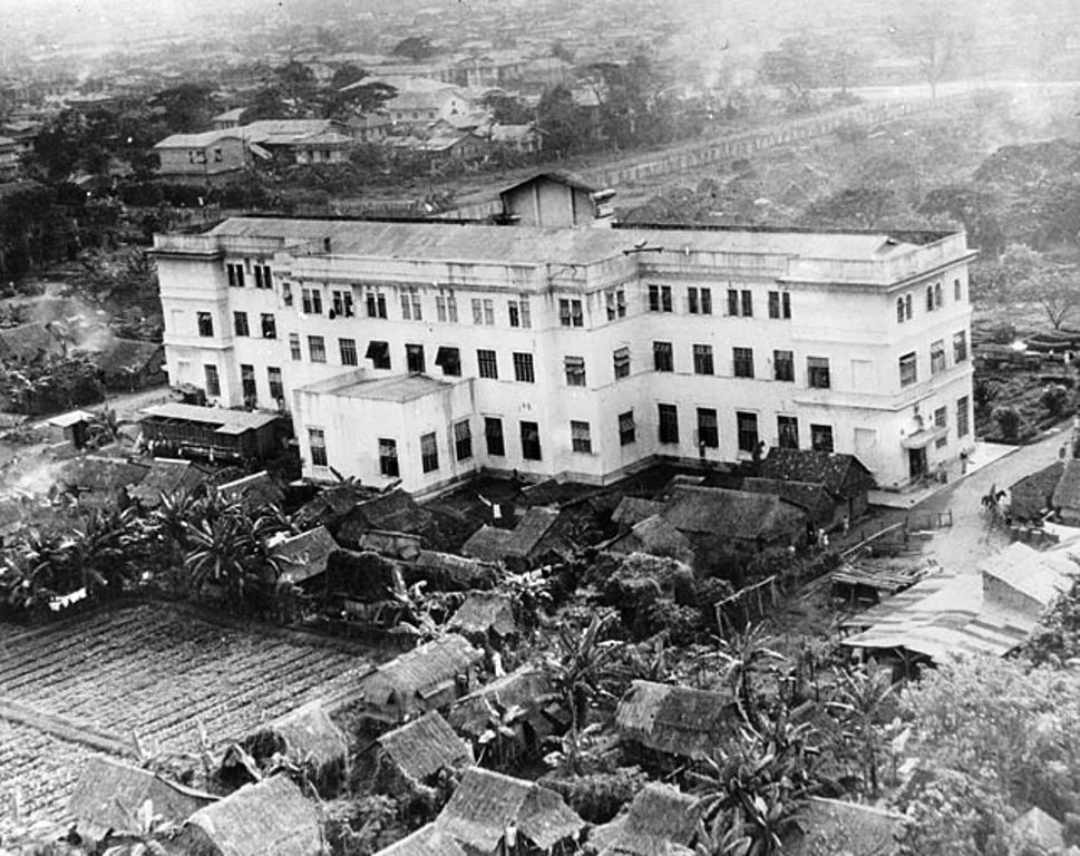 An areal photograph of the Old Hospital (Engineering building) of Santo Tomas University in Manila in 1945. Surrounding the building are the shanties built by allie prisoners of war/internees in the Japanese Santo Tomas Internment Center